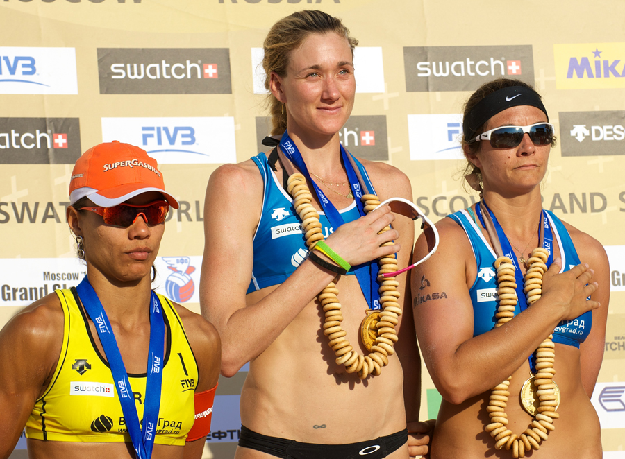 Grand Slam Moscow 2011